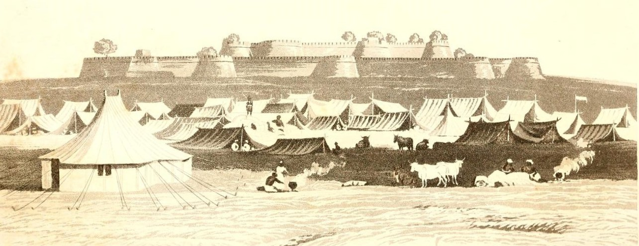 View of Comery (1801)